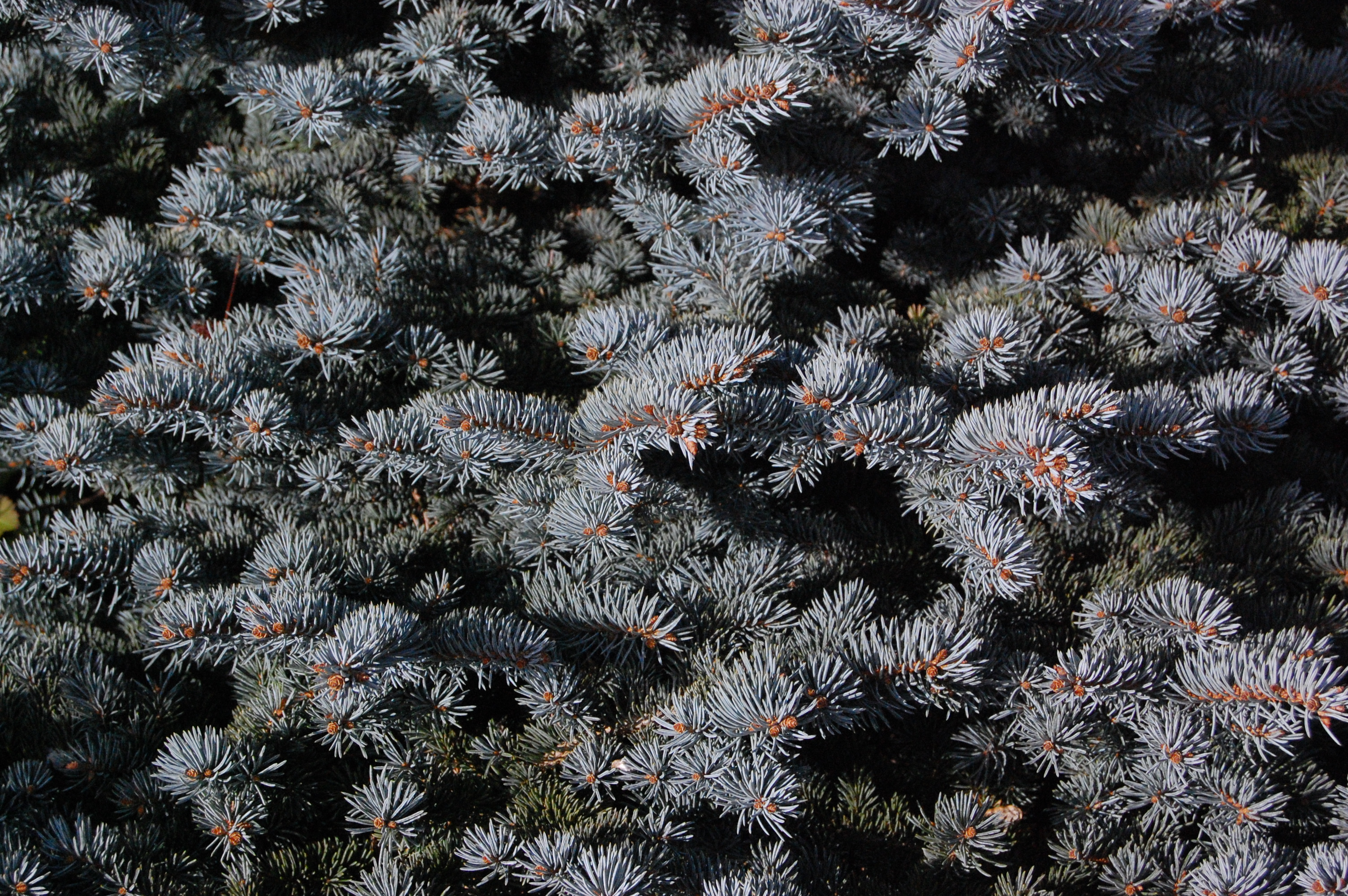 Specimen of Picea pungens 'Glauca globosa' photographed at Pacific Nurseries, Streetley, West Midlands, England, in Autumn.